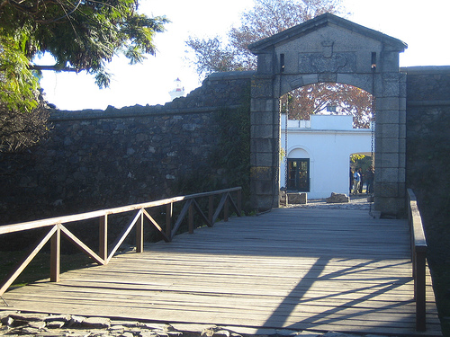 Colonia del Sacramento Fortress, in Uruguay